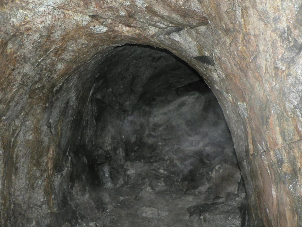 Image title: Jammed mining path Image from Public domain images website